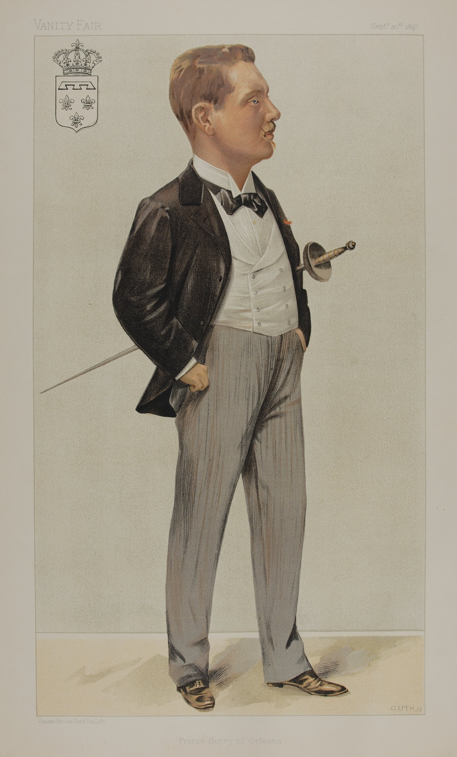 Princes No. 19: Caricature of Prince Henri of Orléans. Caption read "Prince Henry of Orleans".